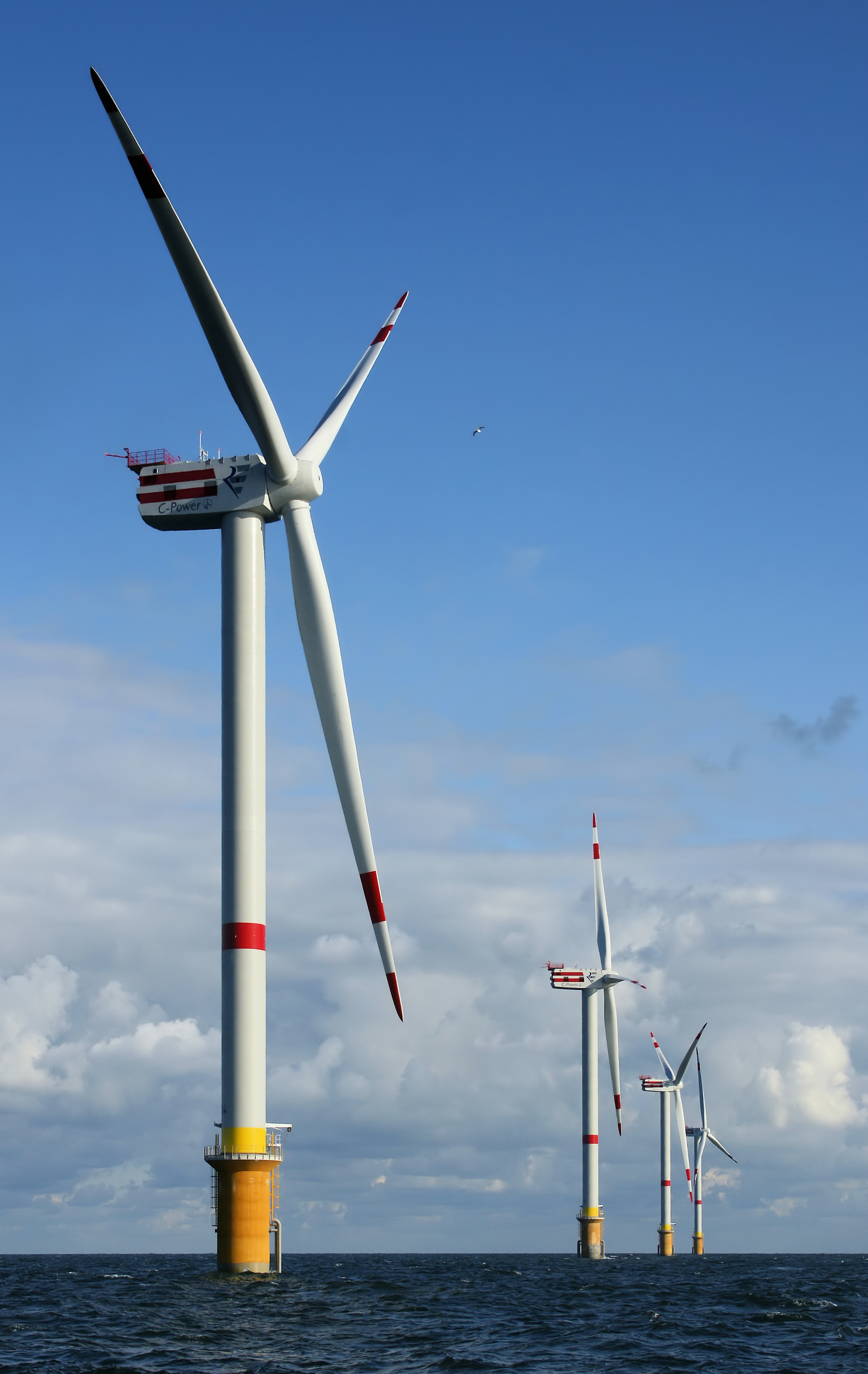 Newly constructed windmills D4 (nearest) to D1 on the Thornton Bank, 28 km off shore, on the Belgian part of the North Sea. The windmills are 157m (+TAW) high, 184m above the sea bottom. Vane length : 61.5m Rotor diameter: 126m Rotor area: 12.469m² Turbines: 5MW manufactured by REpower.